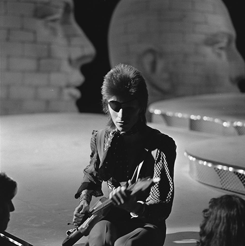 David Bowie, shooting his video for Rebel Rebel in AVRO's TopPop (Dutch television show) in 1974